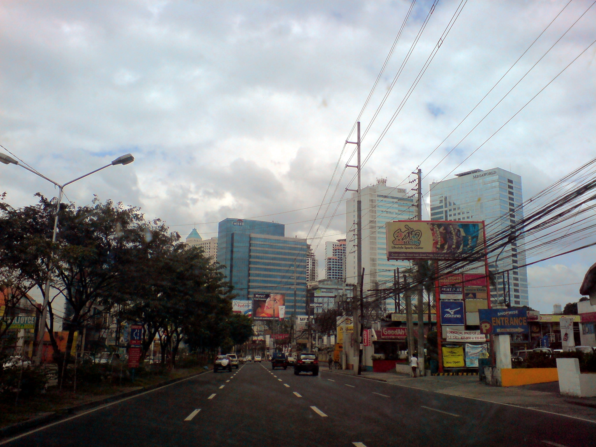 Shot of Eastwood City in the Libis area of Quezon City, Metro Manila, Philippines